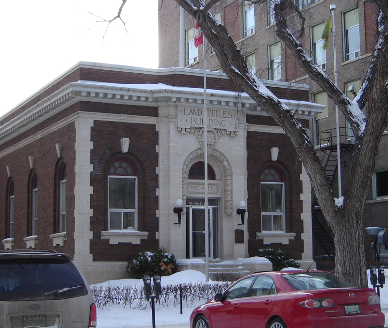 Municipal Heritage Properties:Land Titles Building Central Business District , Core Neighbourhoods SDA, Saskatoon, Saskatchewan, Canada